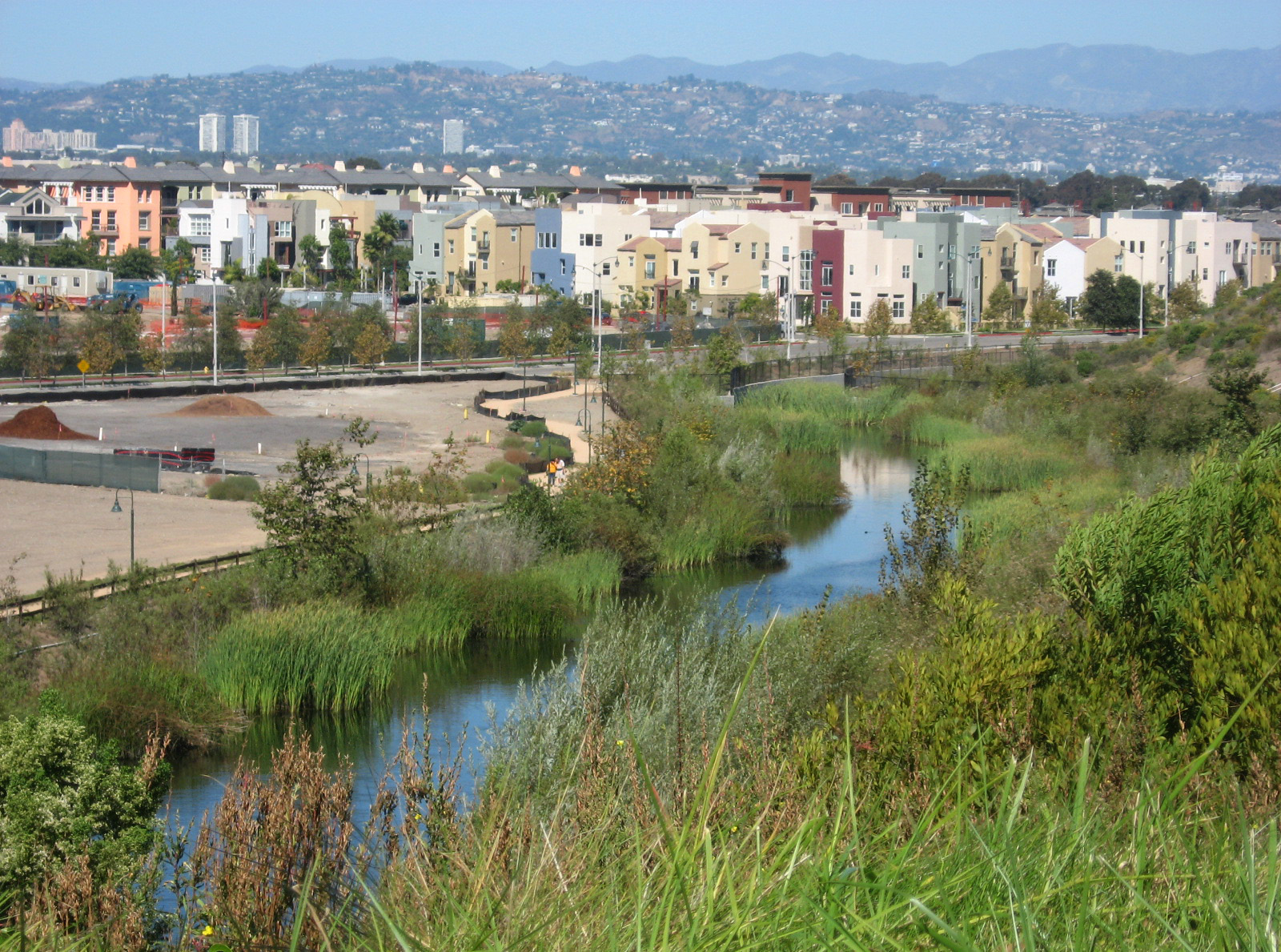 Bluff Creek and the new Playa Vista residential development on the Ballona wetlands, in Los Angeles, California. The Hollywood Hills, and behind them, the Verdugo Mountains, are seen in the distance.